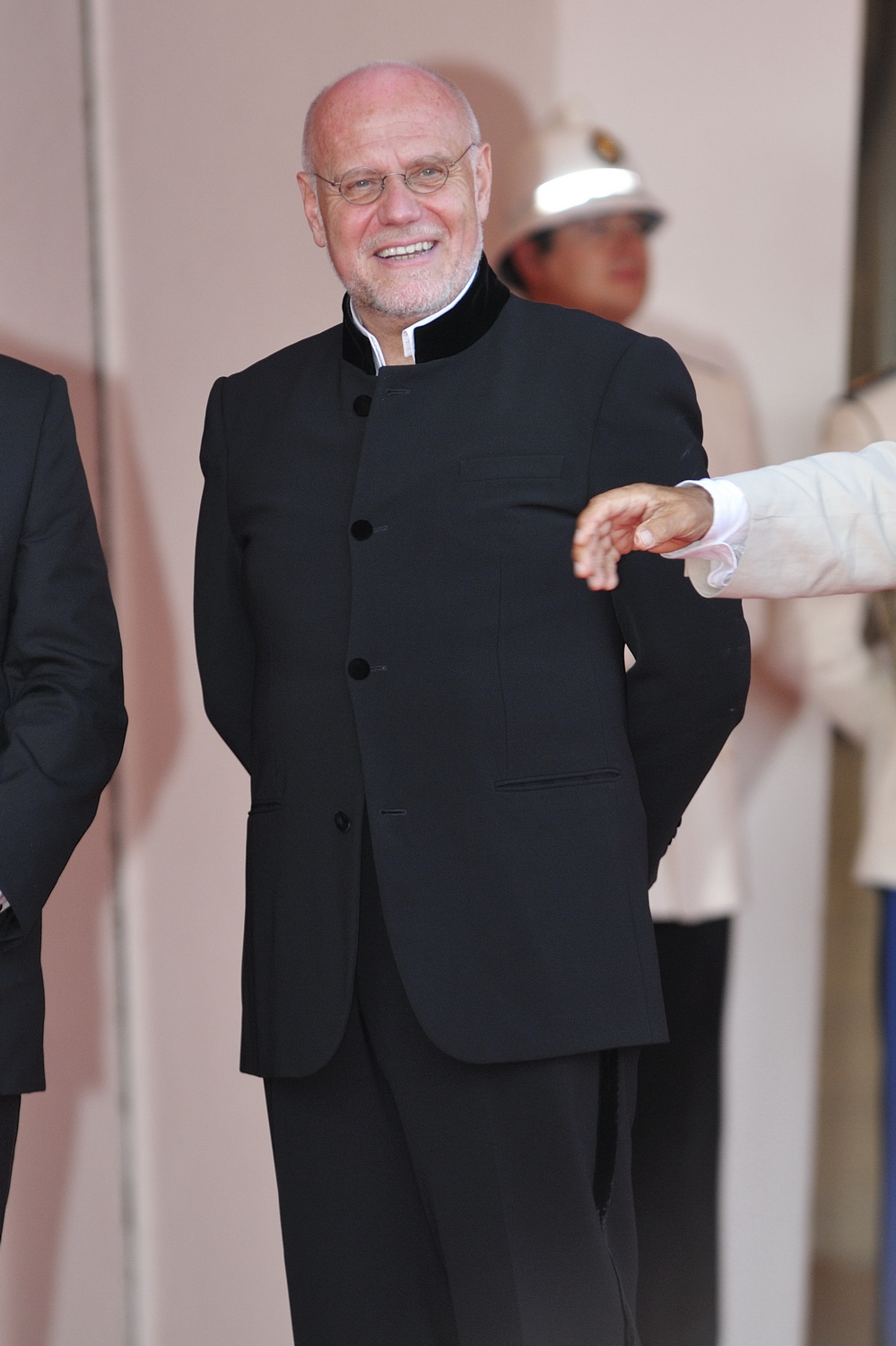 Marco Müller, president of the Venice Film Festival, 2009